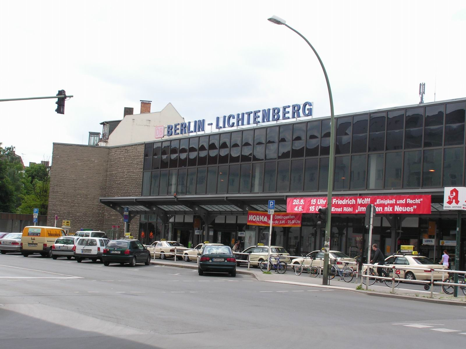 Station building of the station Berlin-Lichtenberg